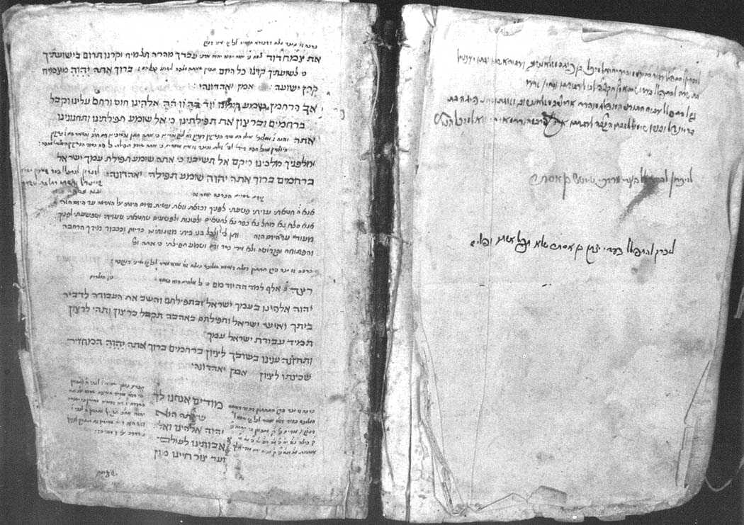 (Keywords: Rabbi Yisroel ben Eliezar, Baal Shem Tov) Photograph of the Baal Shem Tov's handwritten siddur (prayer book) with his students' names in the margins to help him remember them in his prayers. The siddur is in the collection of Agudas Chabad Library, archive #1994. The book is open to the Amidah or Shemone Esreh prayer, with blessings Yeshuah through Modim visible.